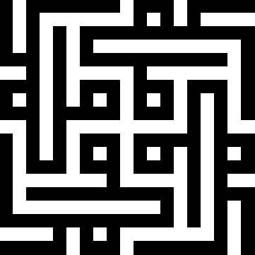 Fourfold Muhammad in geometric Kufic script, tilework pattern often used in Islamic architectural decoration (cf. e.g. Annemarie Schimmel: And Muhammad Is His Messenger: The Veneration of the Prophet in Islamic Piety)